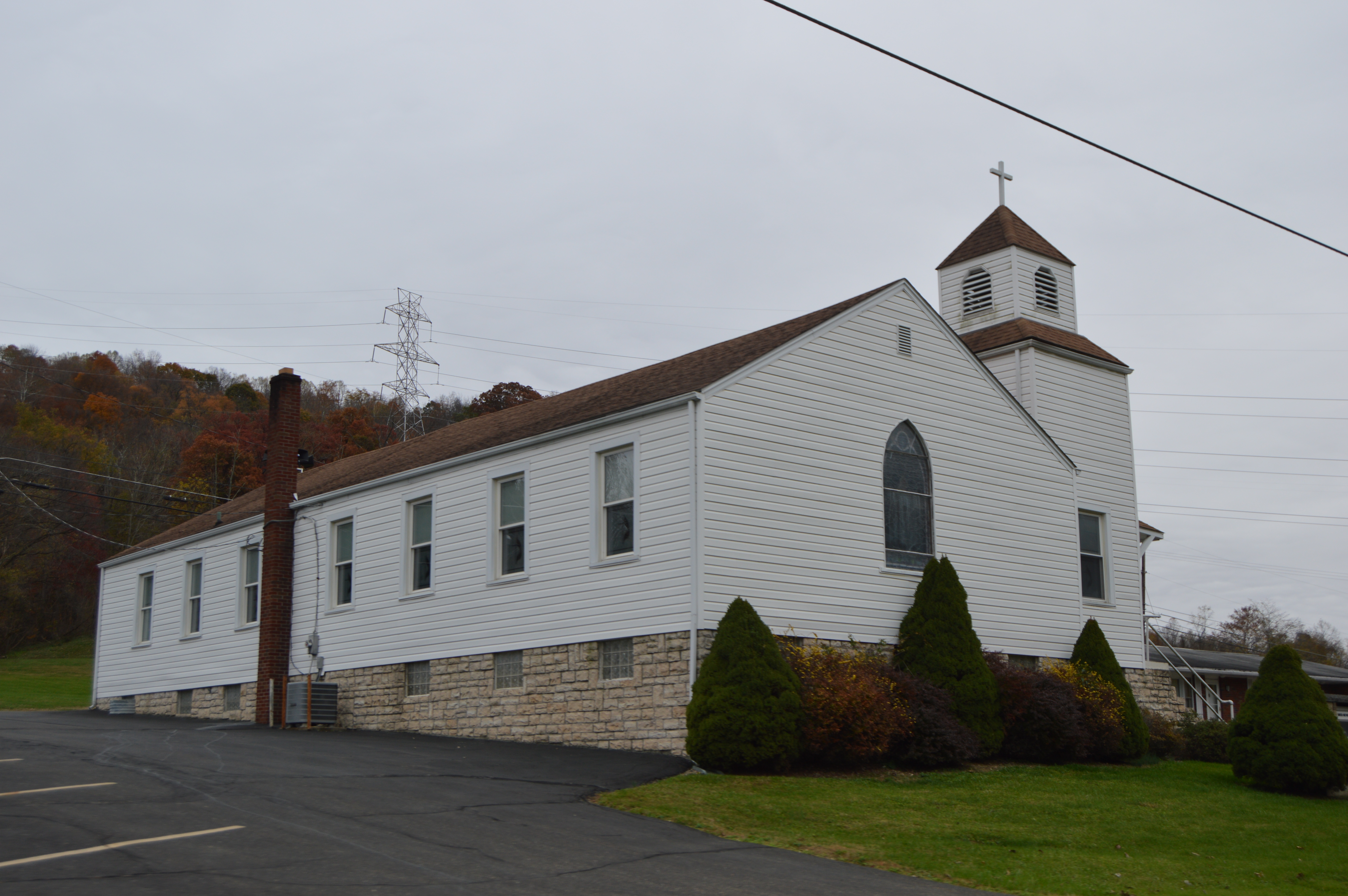 Western side and front of the Amity United Methodist Church, located at 53431 Steinersville Road (State Route 148) at Steinersville in York Township, Belmont County, Ohio, United States.